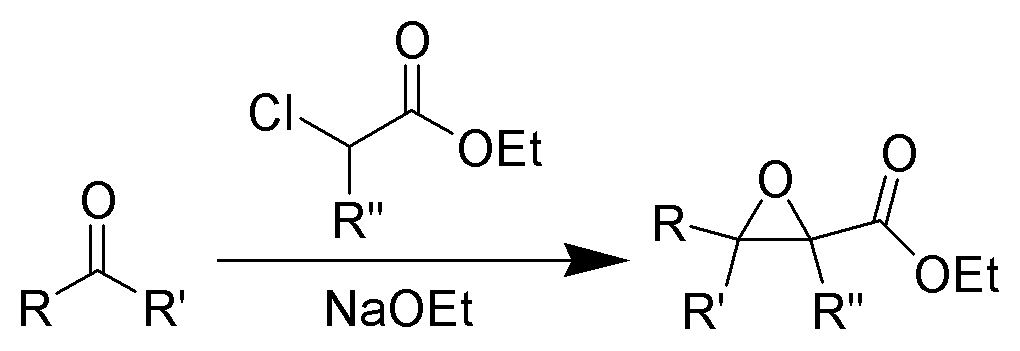 Generic overall scheme of the Darzens reaction